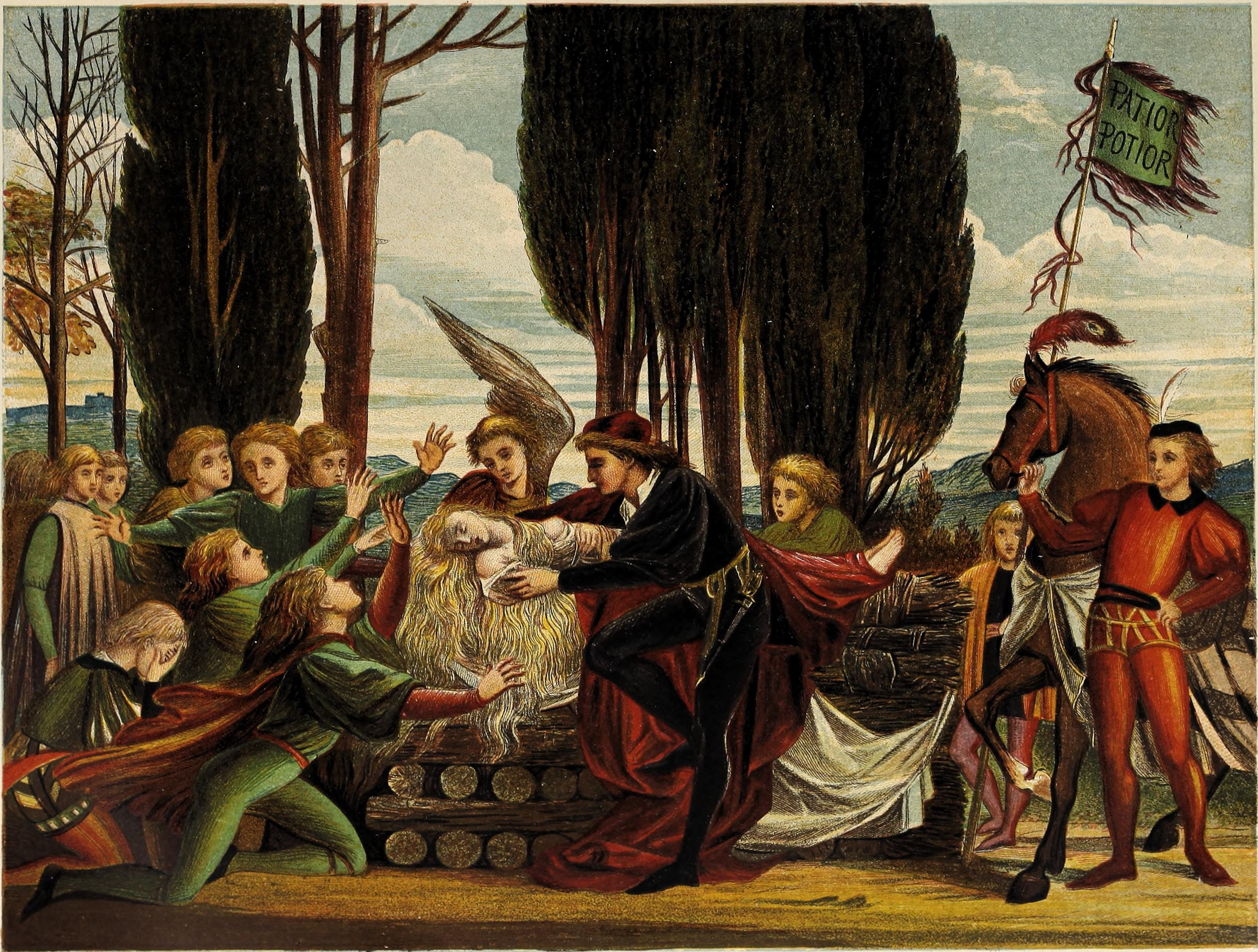 "The Queen disenchants the Wild Swans and faints upon the Funeral Pyre." An illustration from Hans Christian Andersen's fairytale "The Wild Swans", from 'the book Fairy Tales by Hans Christian Andersen, London: Sampson Low, Marston, Low, and Searle, 1872. The book can be read online here (the illustration can be seen on page 24, here).